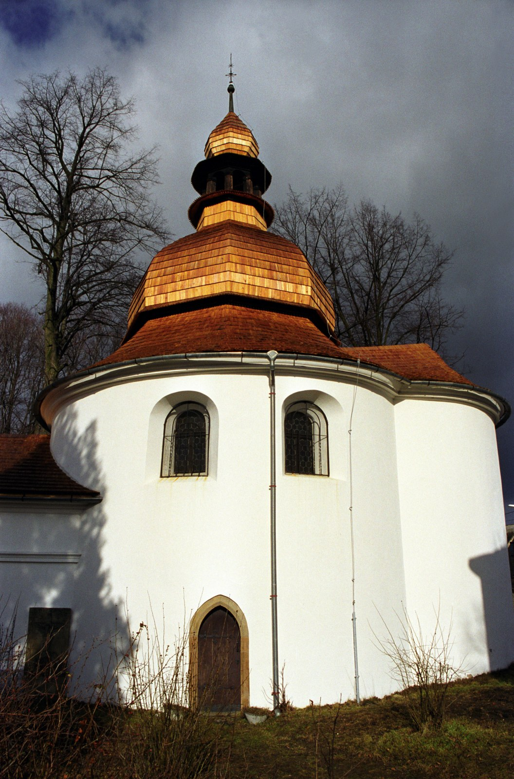 Romanesque church of Saint Catherine in Česká Třebová from the 13th century.